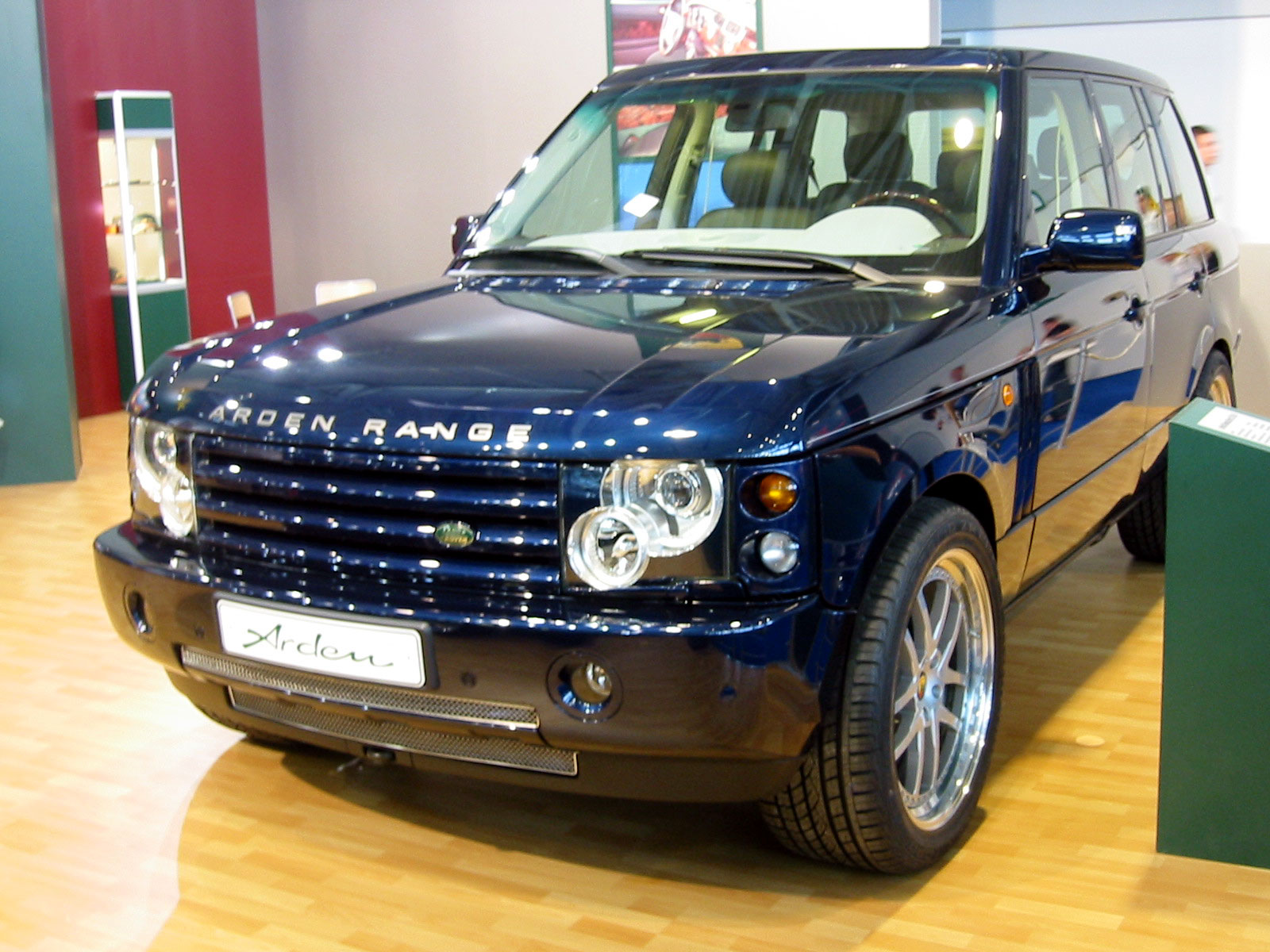 Range Rover by Arden at the IAA 2003